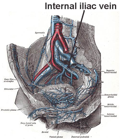 Application of Image:Gray539.png Internal iliac vein